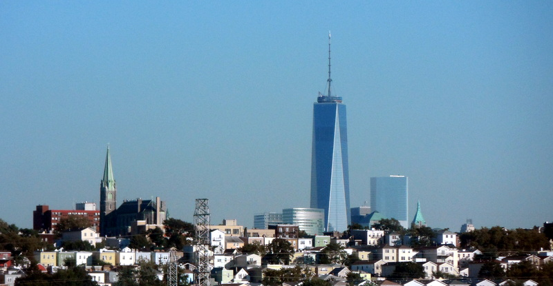 This photo shows North Bergen, New Jersey with part of the New York skyline behind it, in particular the Freedom Tower.